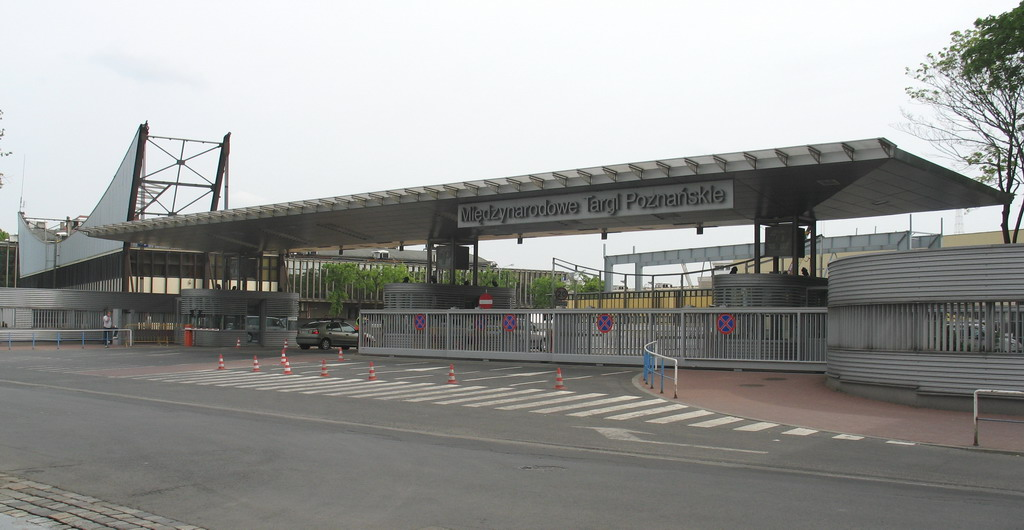 View on entrance gate on Śniadeckich St. to the Poznań International Fair in Poland